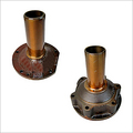 Gear Box Main Drive Retainers